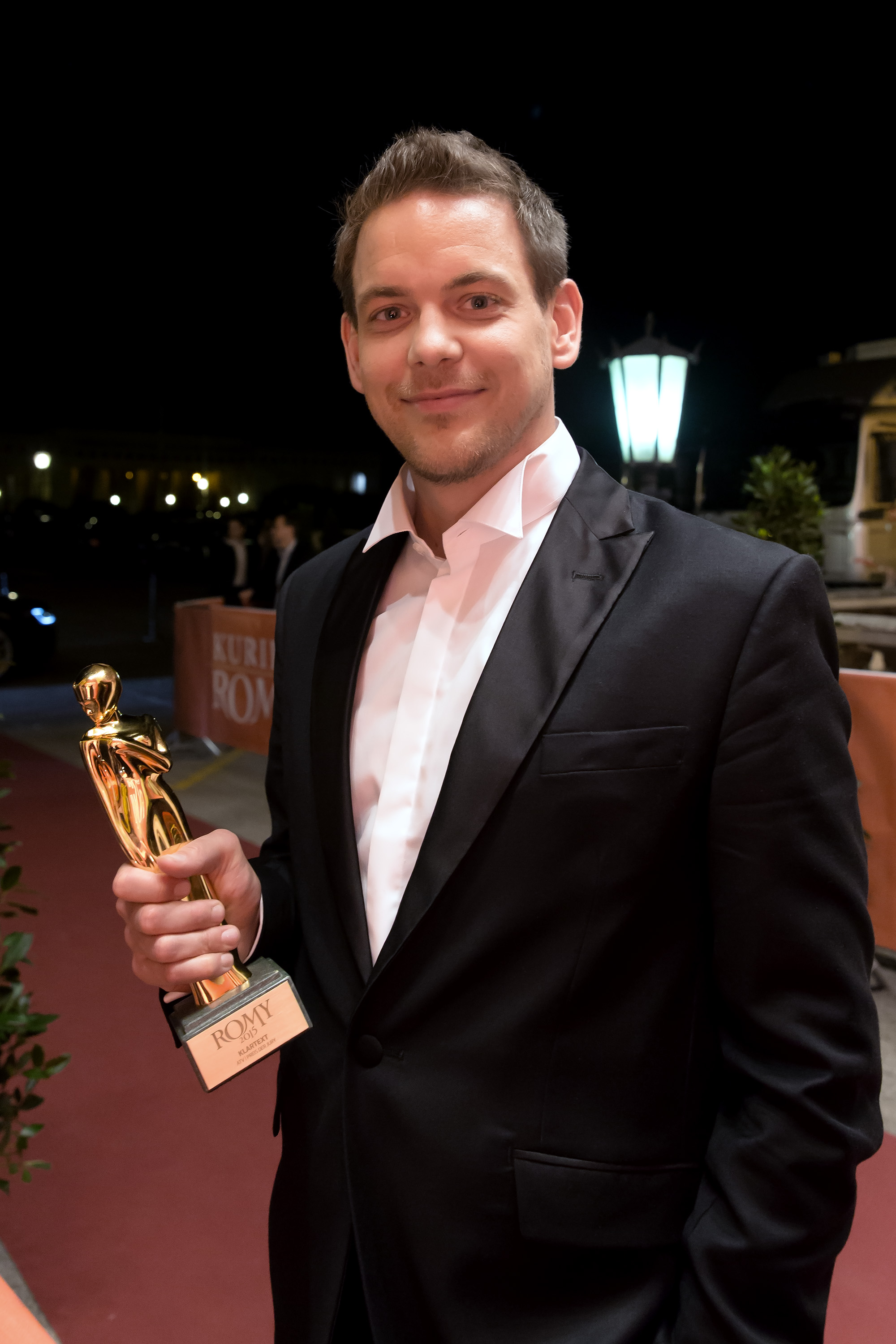 Martin Thür on the red carpet of the Romy TV awards at Hofburg Palace in Vienna, Austria.